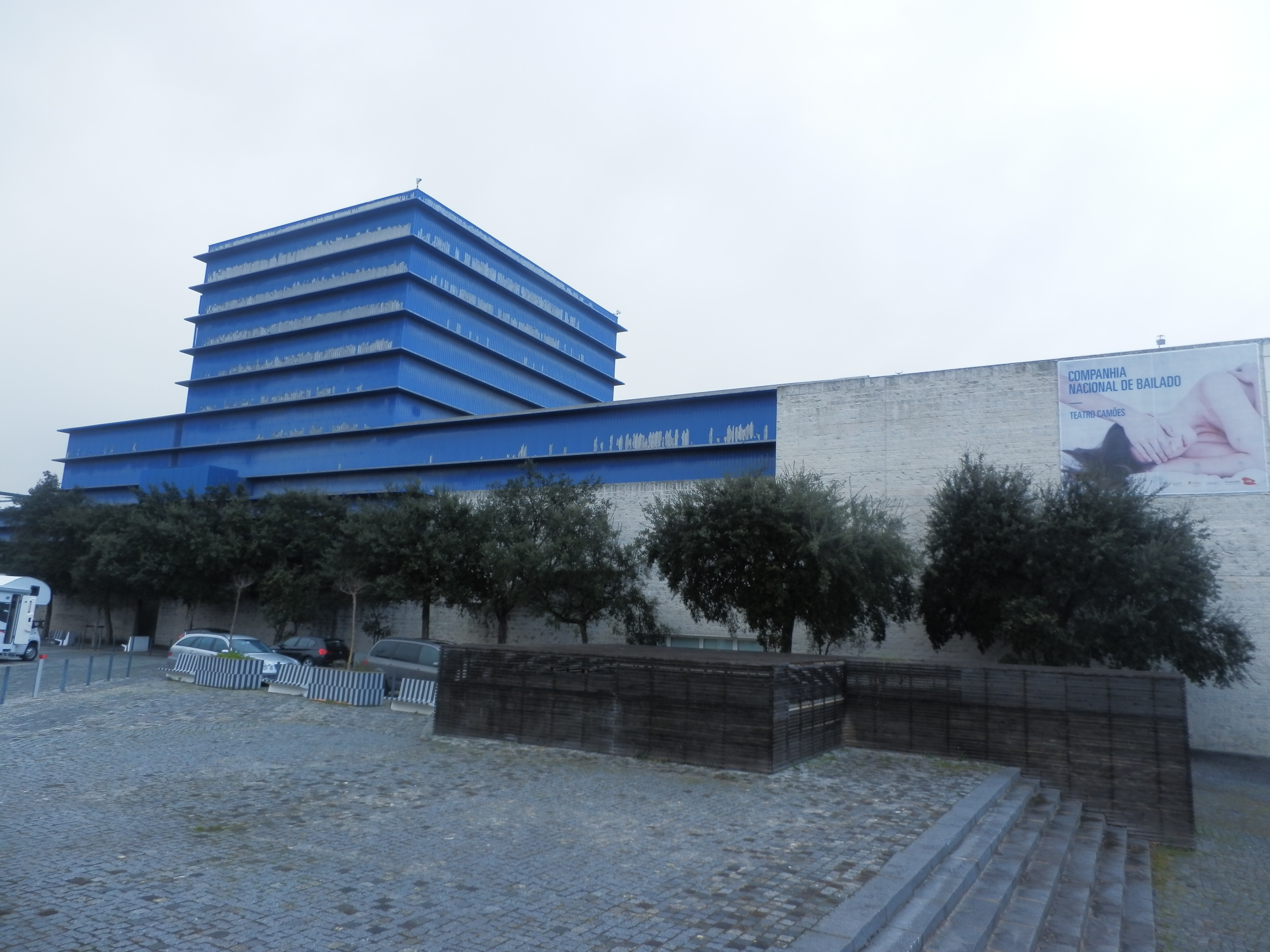 Side view of Teatro Camões